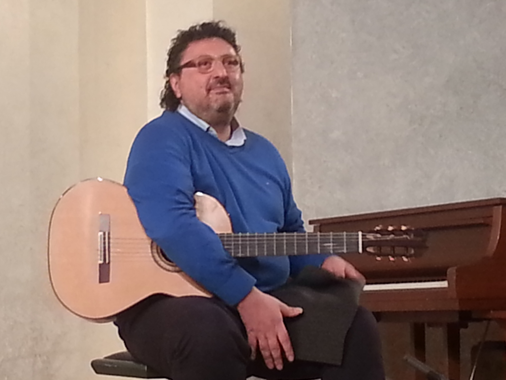 Aniello Desiderio. Performance during 9th The Week of Guitar in Tel Aviv. Feb 14, 2014